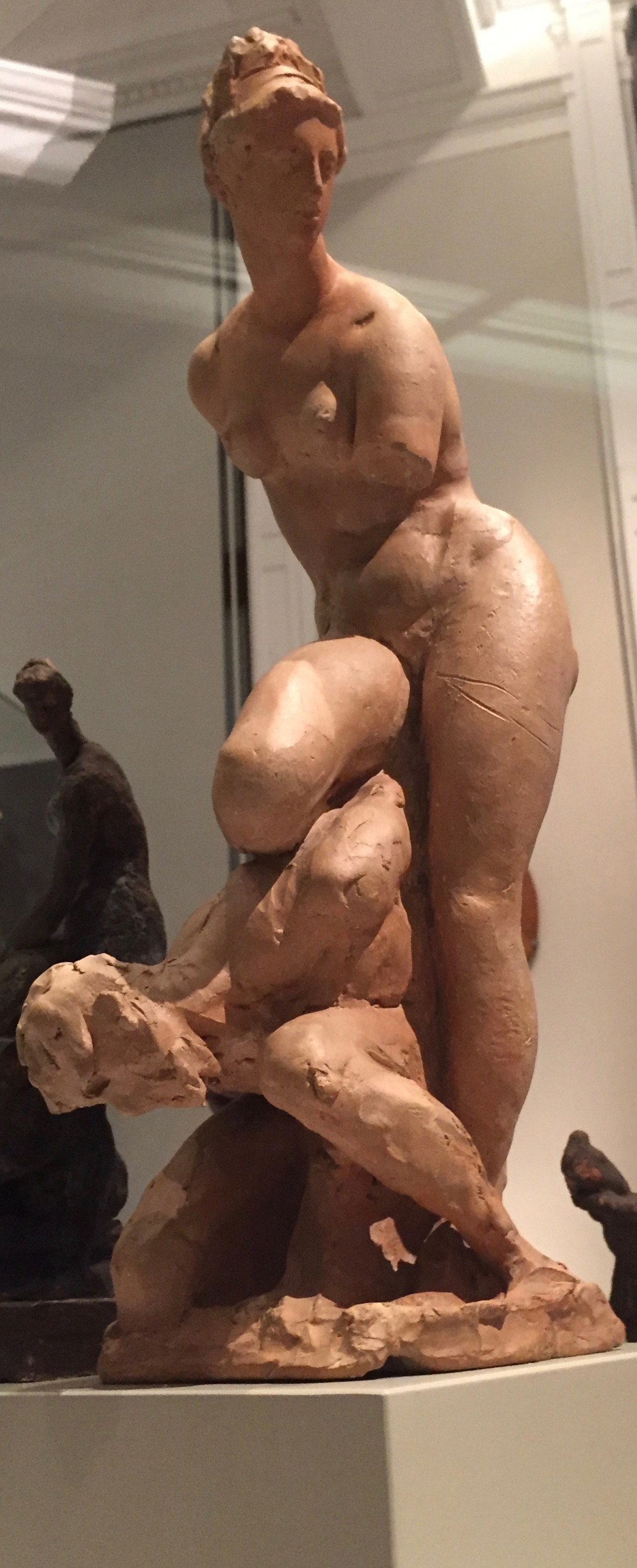 A clay model of Florence Triumphant over Pisa, Giambologna (Machete)